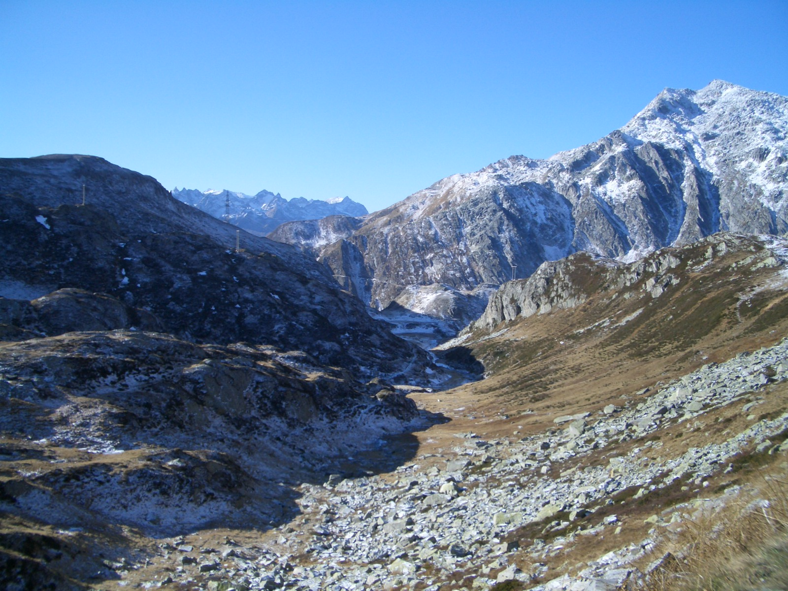 Landscape on the St. Gotthard mountain pass, Switzerland